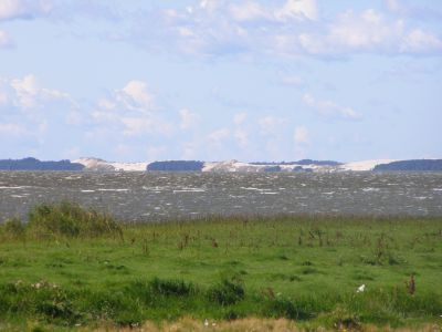 Łebsko Lake seen from Żarnowska village on the south bank